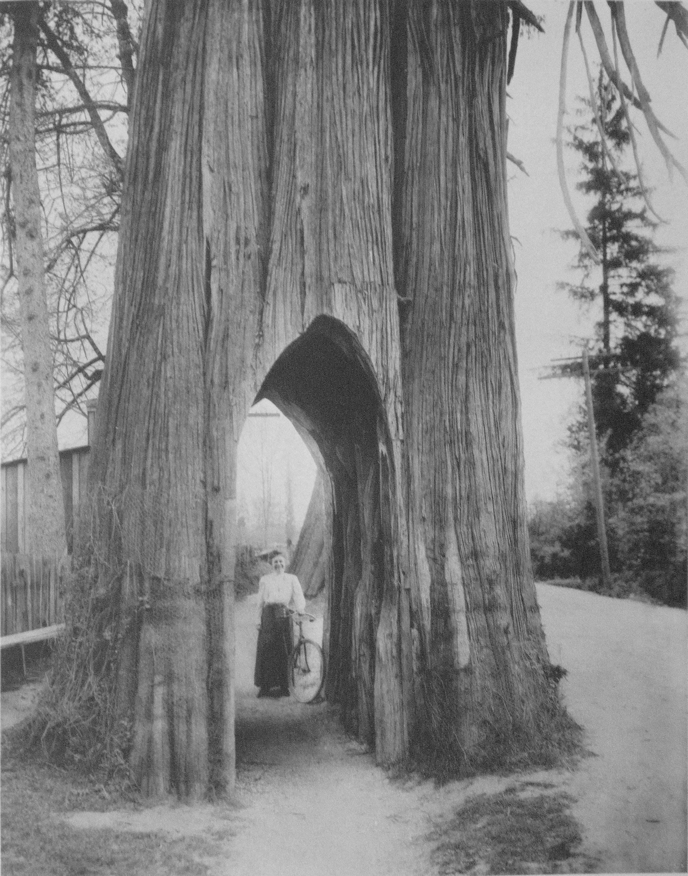 "The Famous Bicycle Tree of Snohomish" — Washington state (1910).